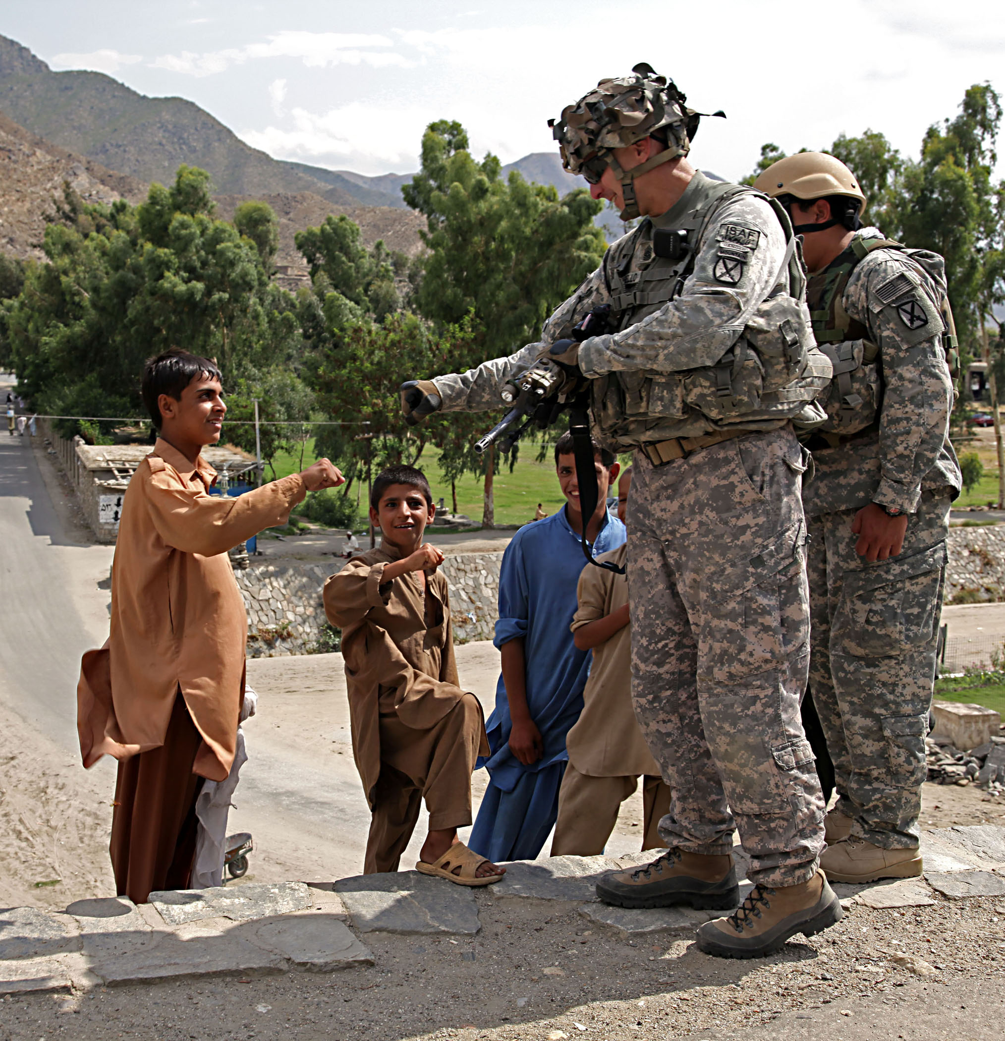 U.S. Army Command Sgt. Maj. Jimmy Carabello of Fort Drum, N.Y., shows Afghan children how to exchange the informal "fist bump" greeting while on a patrol through the streets of Asadabad city in Kunar province, Afghanistan, Aug. 19. Carabello is deployed with 1st Battalion, 32nd Infantry Regiment, 3rd Brigade Combat Team, 10th Mountain Division, which is currently serving as part of Task Force Mountain Warrior. (Photo ID: 197693)